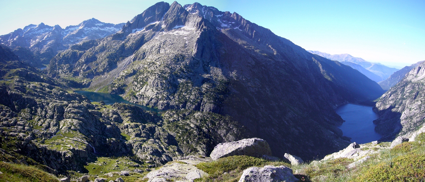 Estany Negre i Pantà de Cavallers, la Vall de Boí, Alta Ribagorça, Catalonia